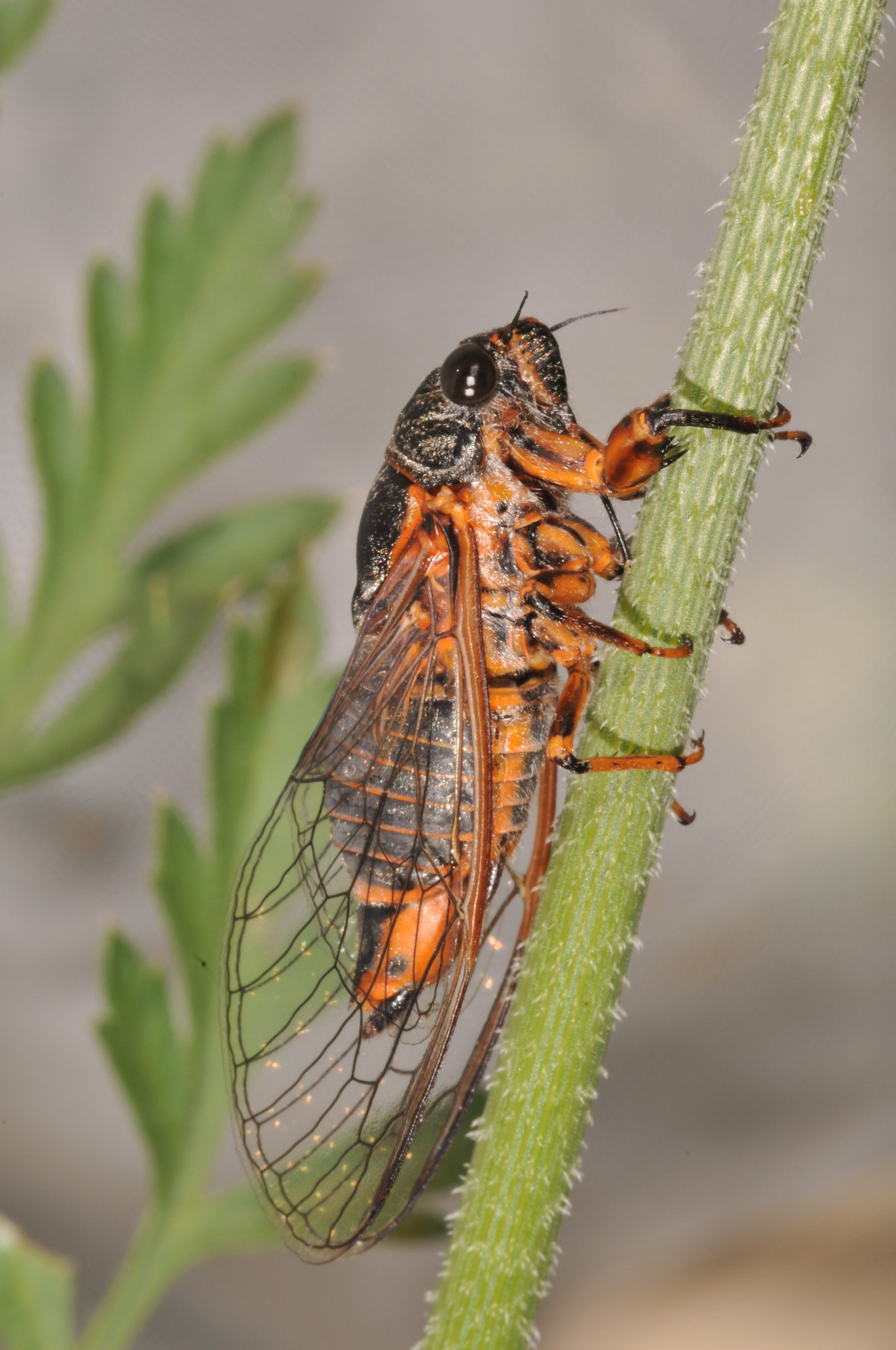 Cicadetta montana, Croatia, Istria, Brseč 15 km south Lovran.